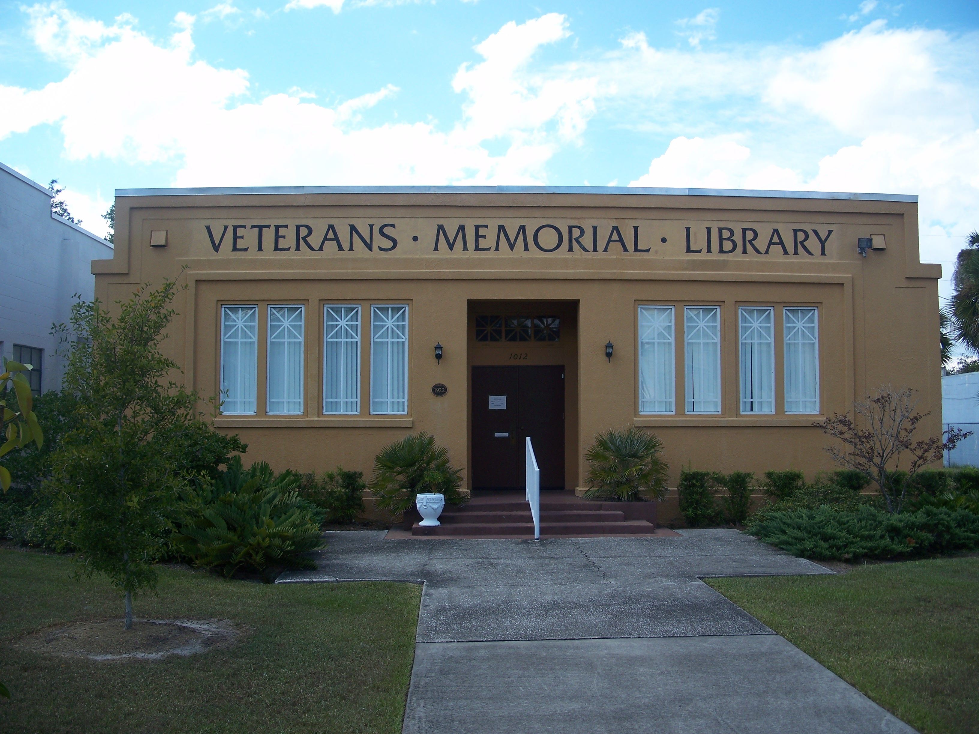 St. Cloud, Florida: St. Cloud Heritage Museum